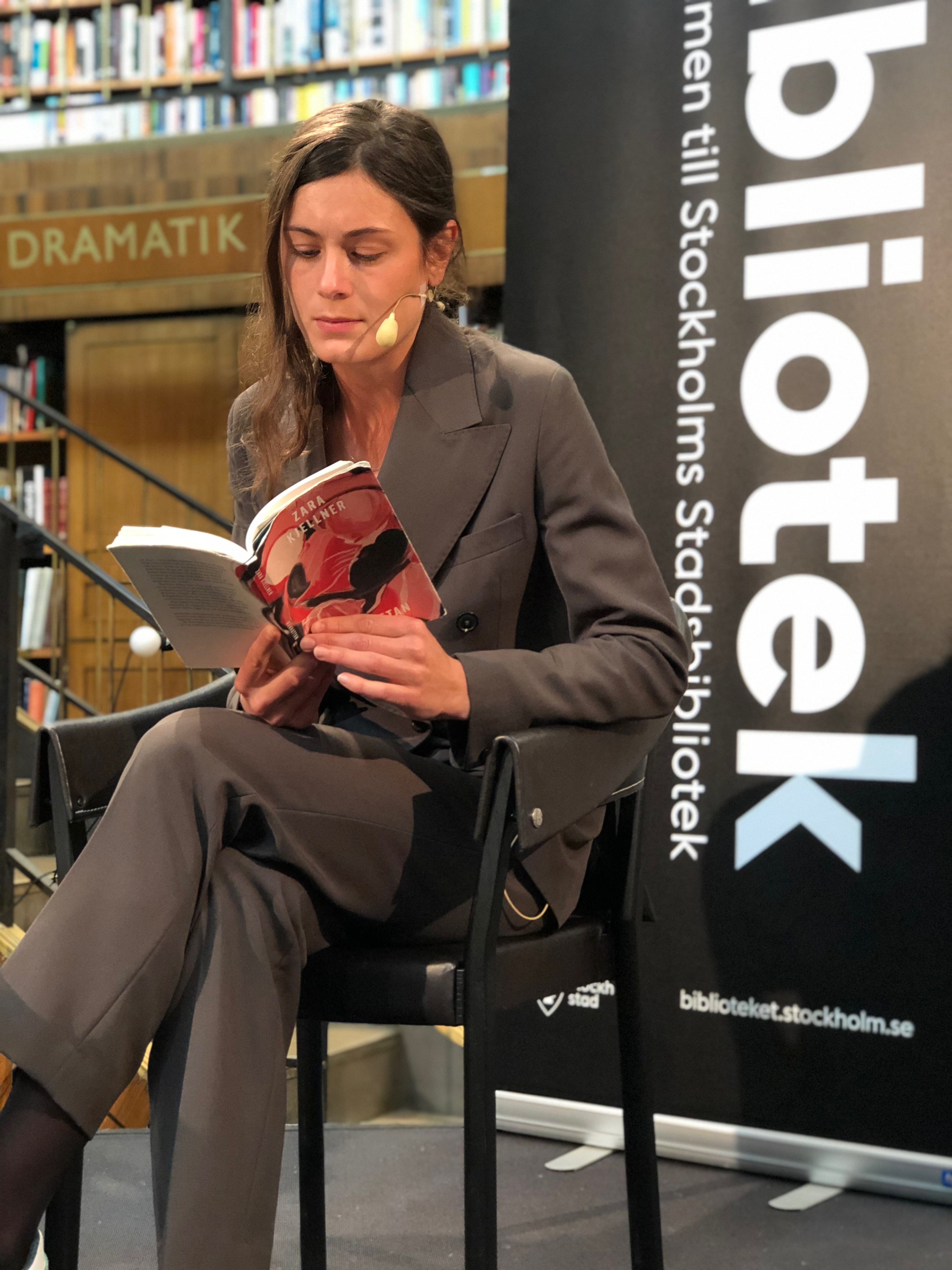 Zara Kjellner at Stockholm city library